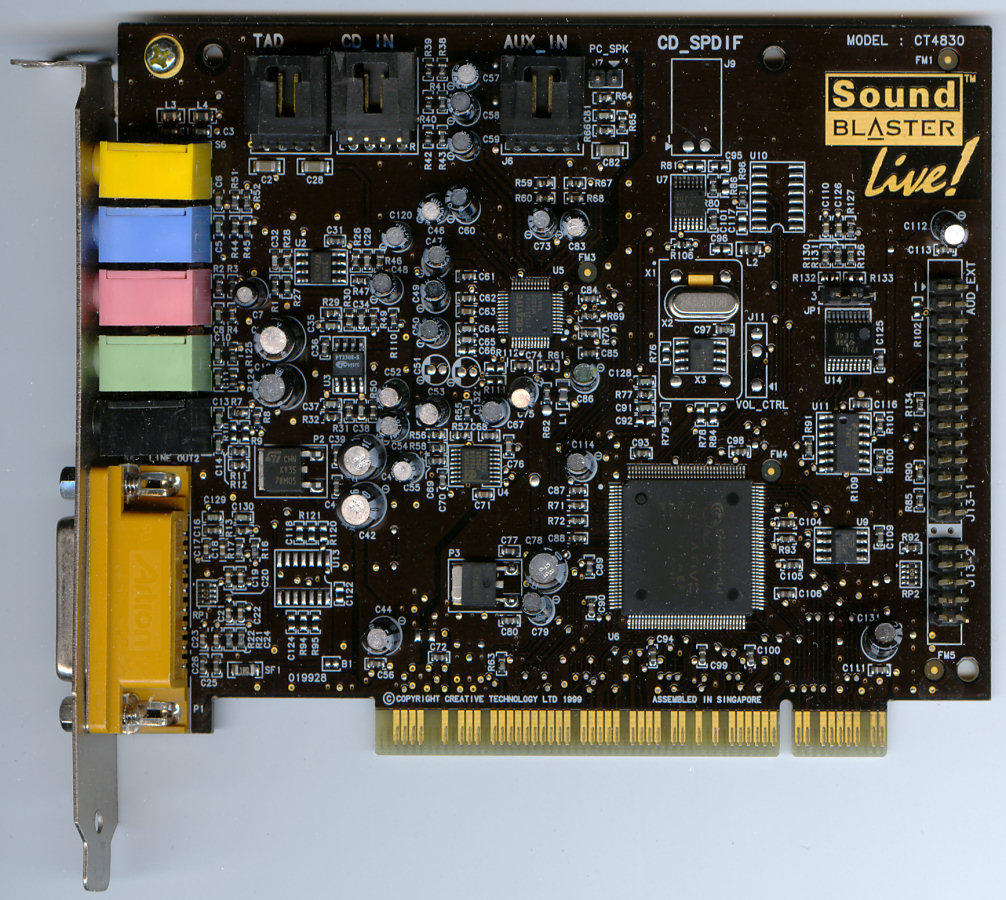 Creative Labs Sound Blaster Live! Value. CT4830. Scan of card. Ref.